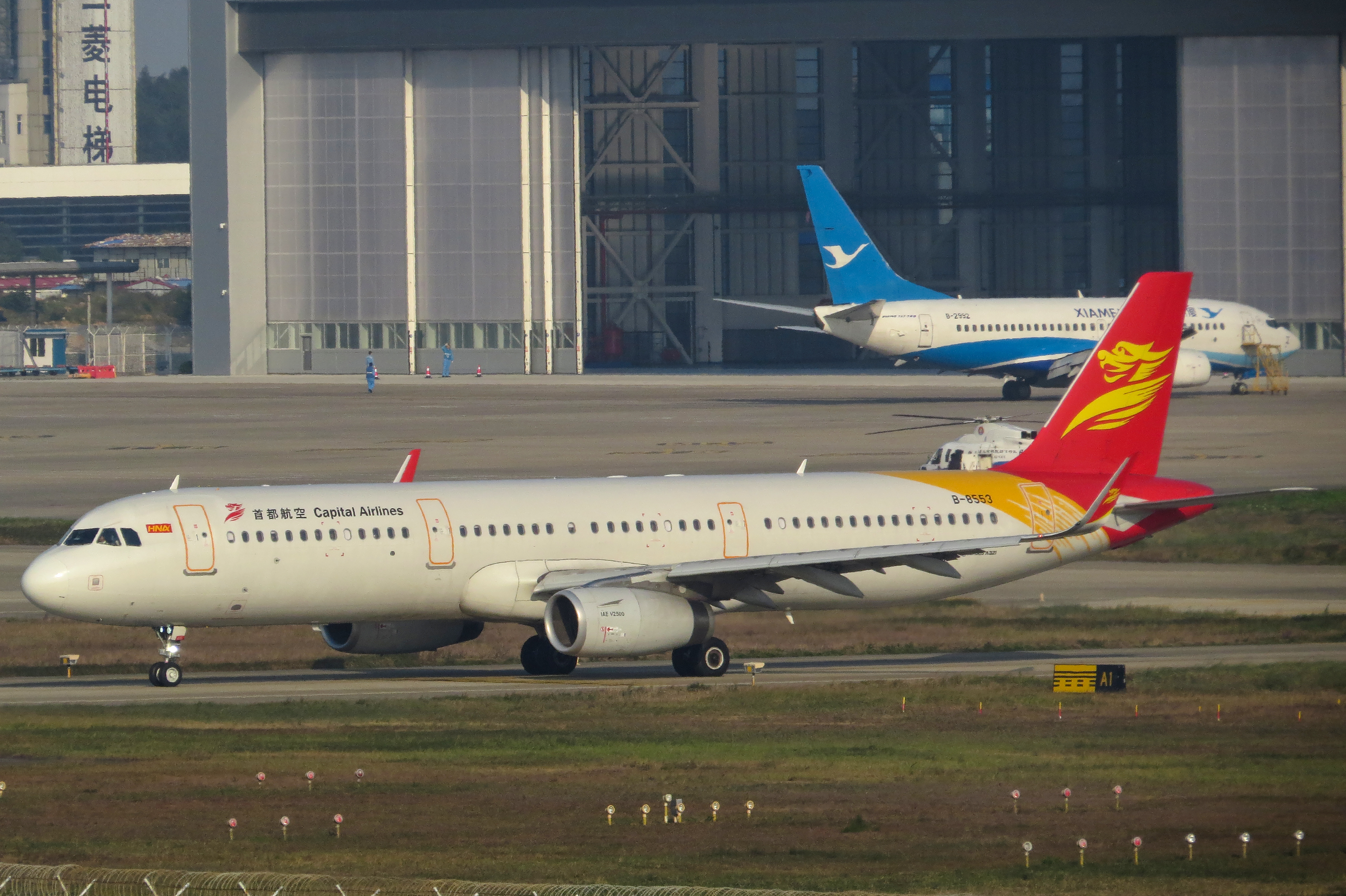 Capital Jet 5370 on its second leg to Sanya.